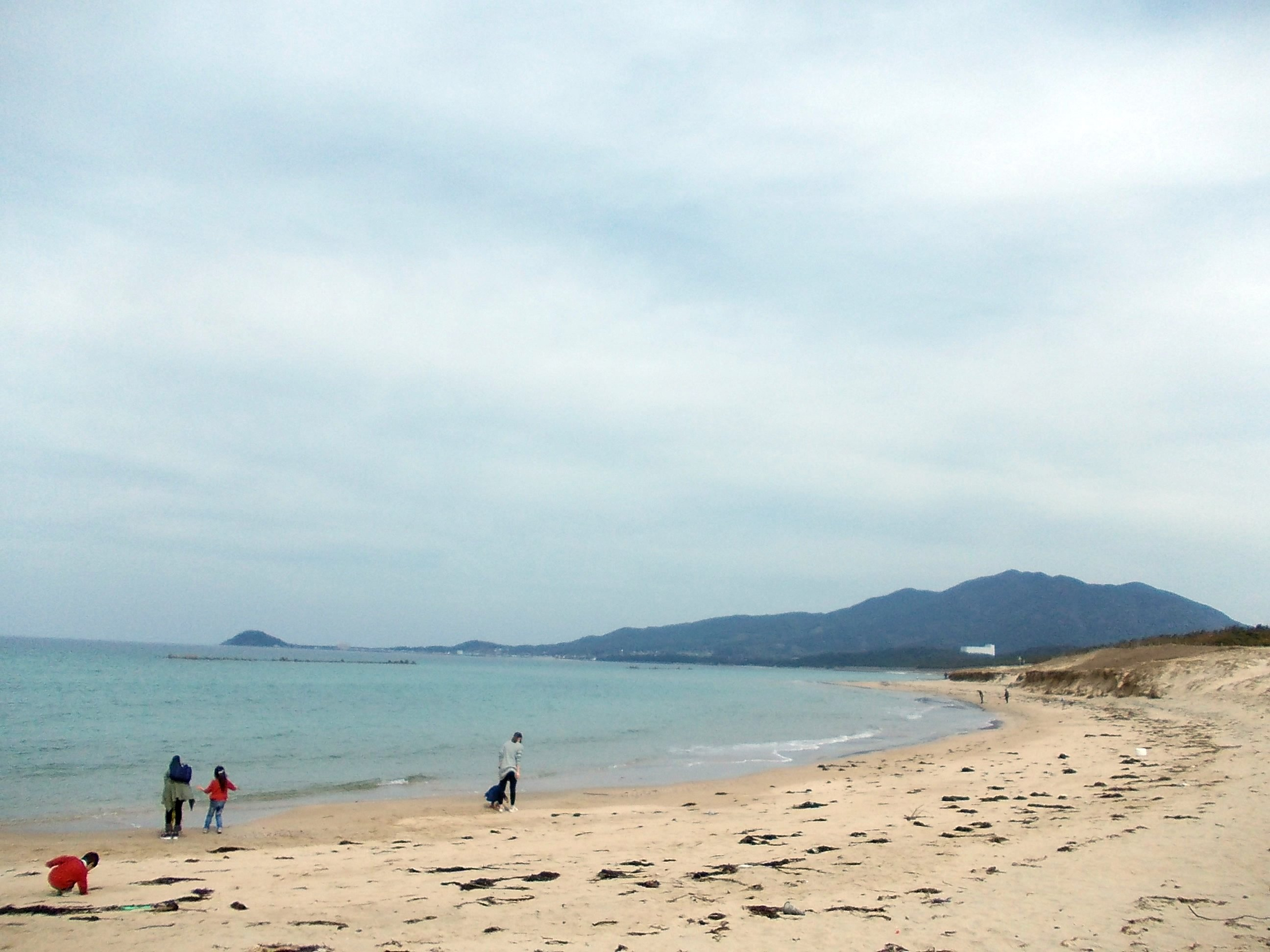 Satsuki-matsubara Beach, Munakata, Fukuoka, Japan